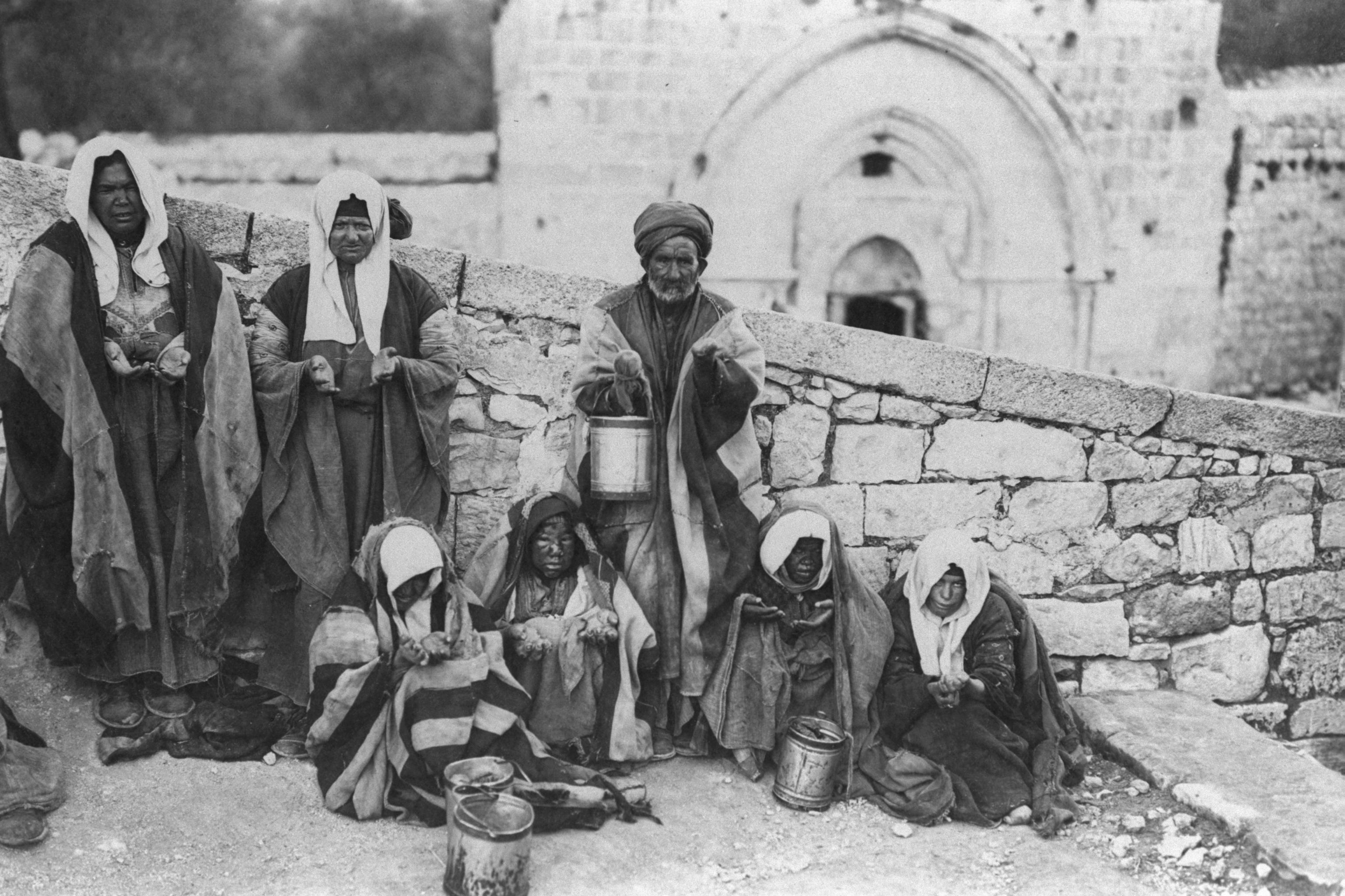 GROUP OF ARAB LEPERS PHOTOGRAPHED DURING THE OTTOMAN ERA OUTSIDE THE WALLS OF THE OLD CITY OF JERUSALEM NEAR THE TOMB OF MIRIAM. צילום נדיר של קבוצת מצורעים ערבים, מחוץ לחומות העיר העתיקה ליד קבר מרים, בירושלים, בתקופת השילטון העותומני בארץ ישראל.